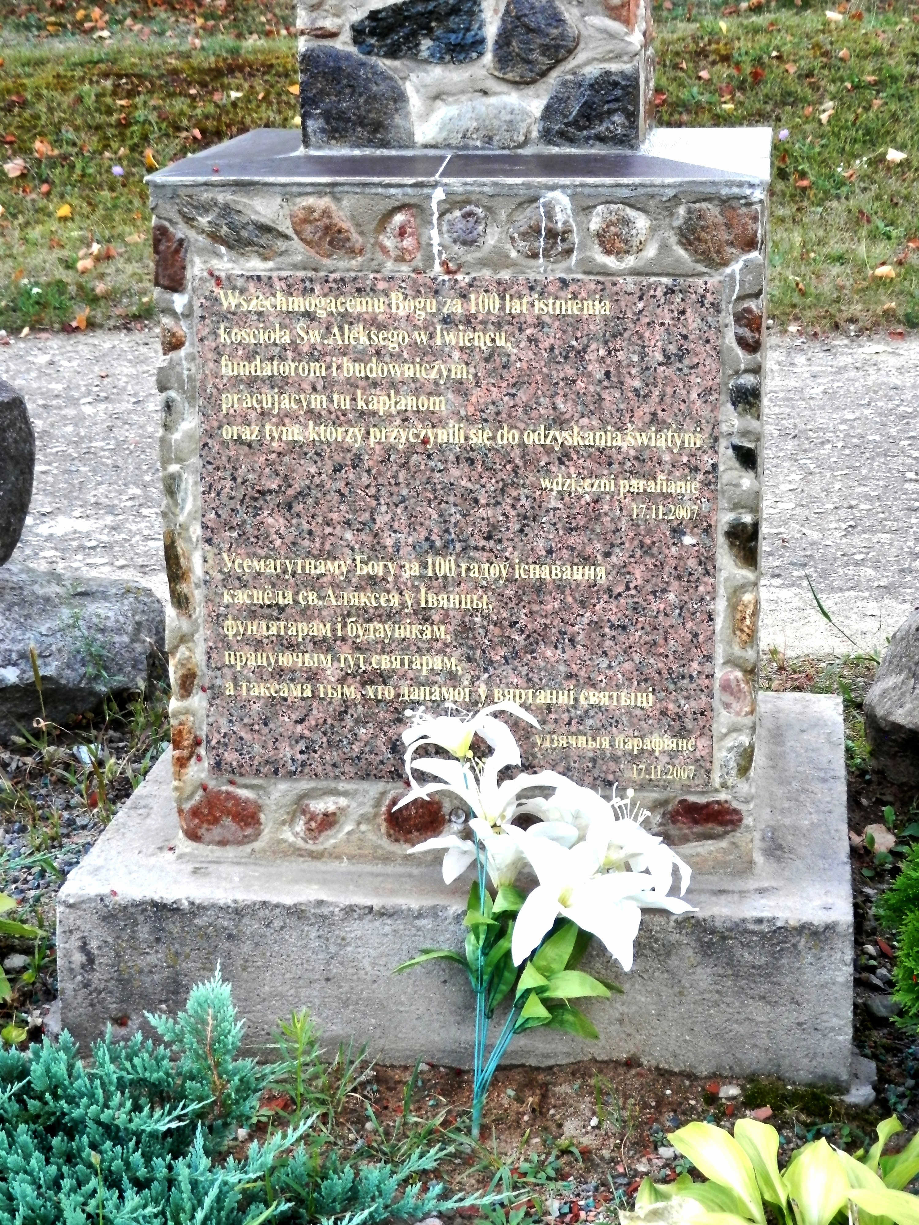 Cemetery + Franciscan Church of Saint Alex. Ivyanets, Belarus